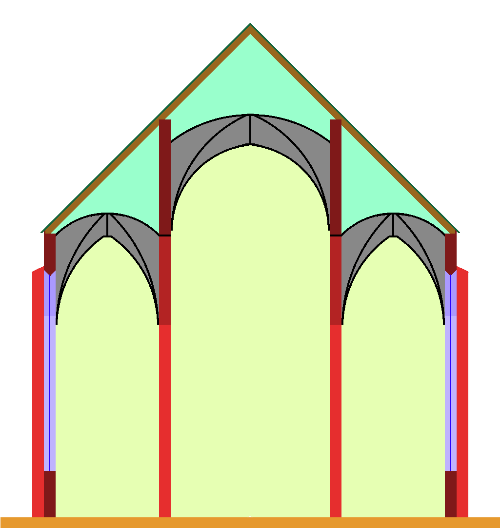 Scheme of a church with a higher central nave, but now widows of it above the lateral aisles